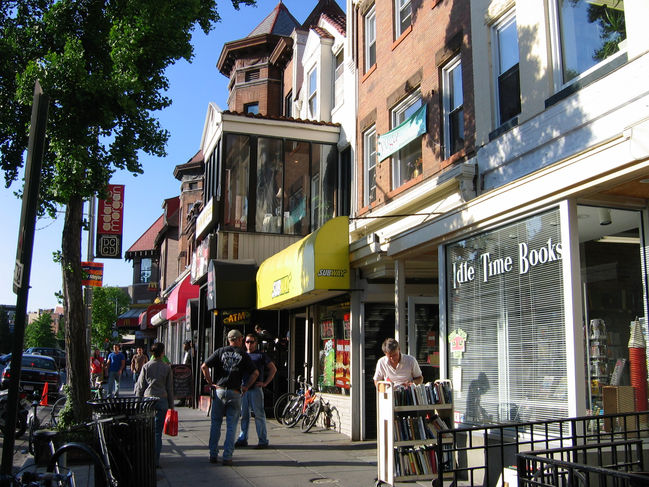 Shops located along 18th Street NW, in Washington, D.C.'s Adams Morgan neighborhood. Looking towards Joy's Spa located on the second floor in the photo.